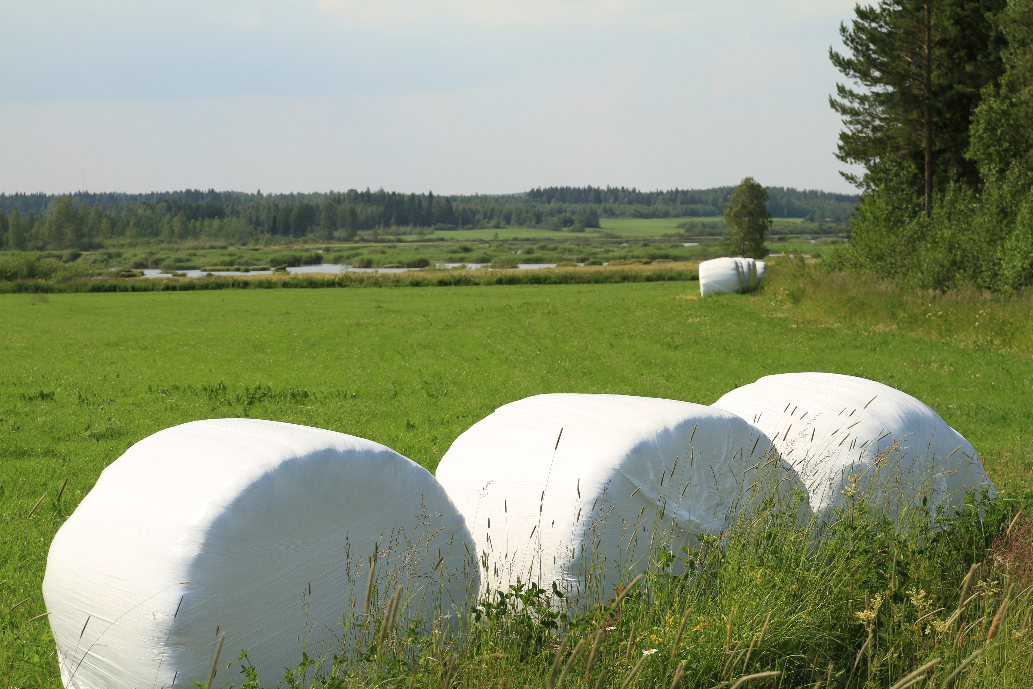 Round silage bales in Kiuruvesi, Finland